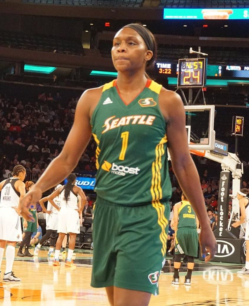 Crystal Langhorne at 2 August 2015 game